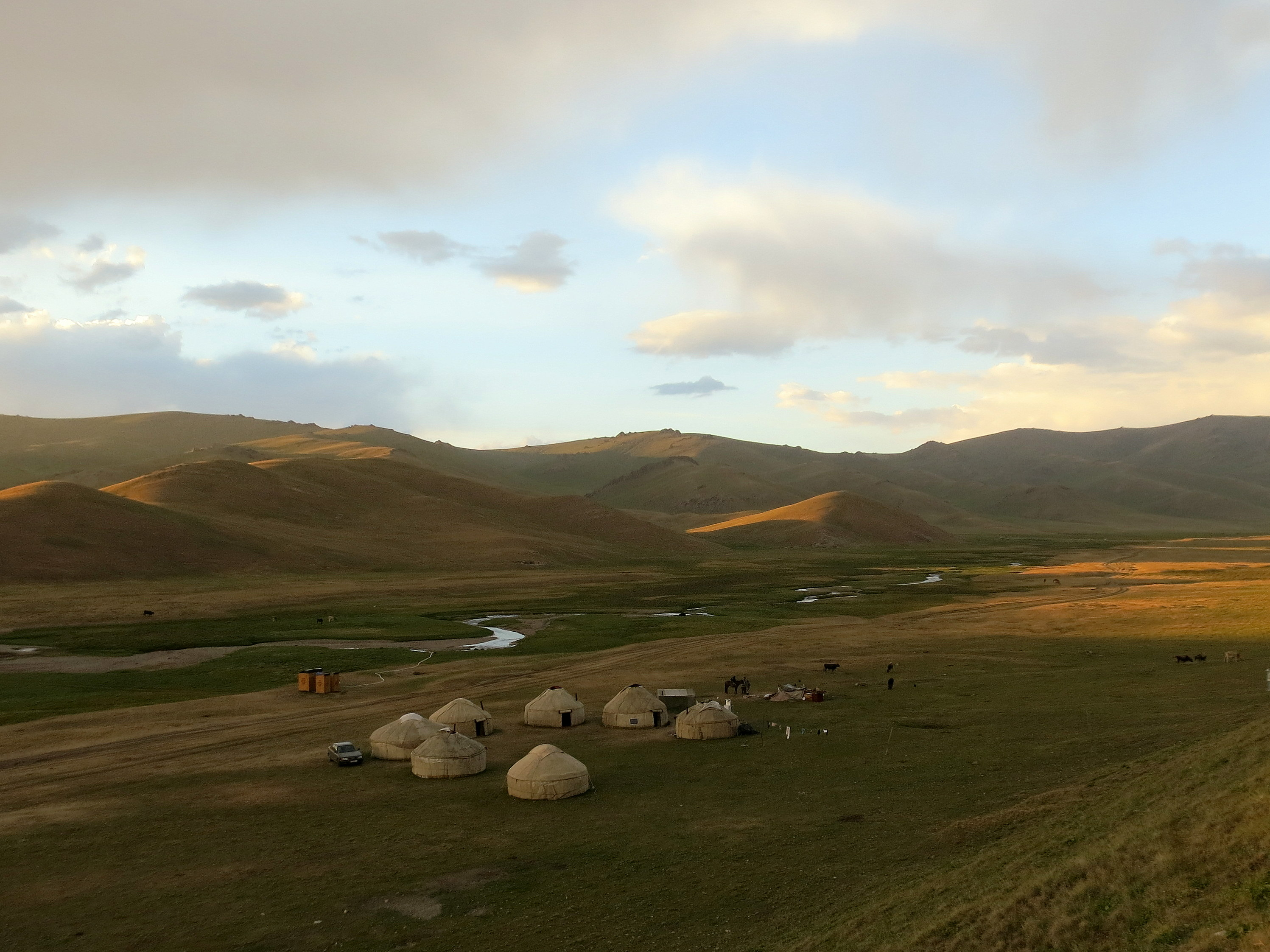 NoviNomad yurt camp, near Son-Kol lake, Kyrgyzstan